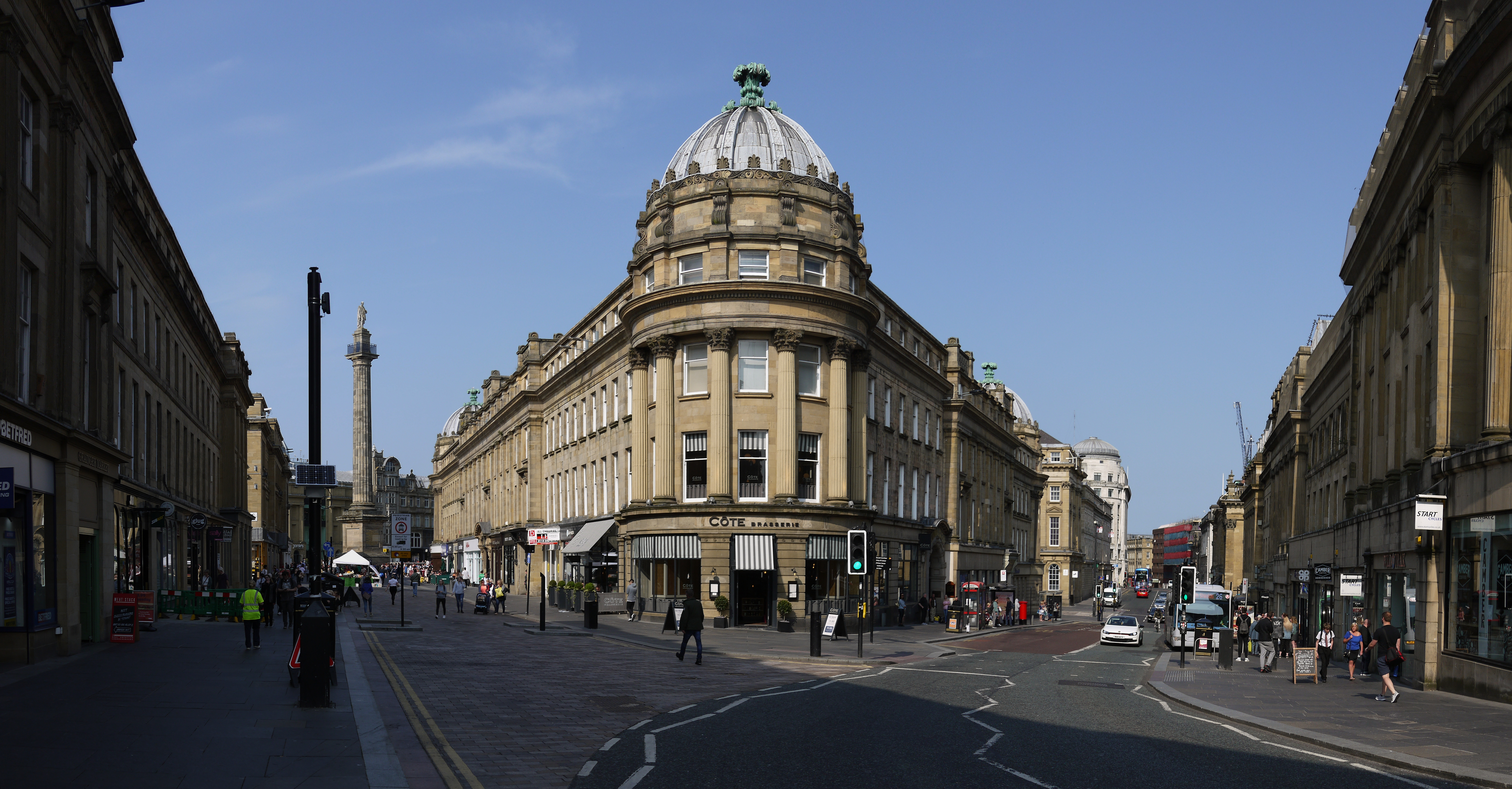 Central Arcade outside, Newcastle